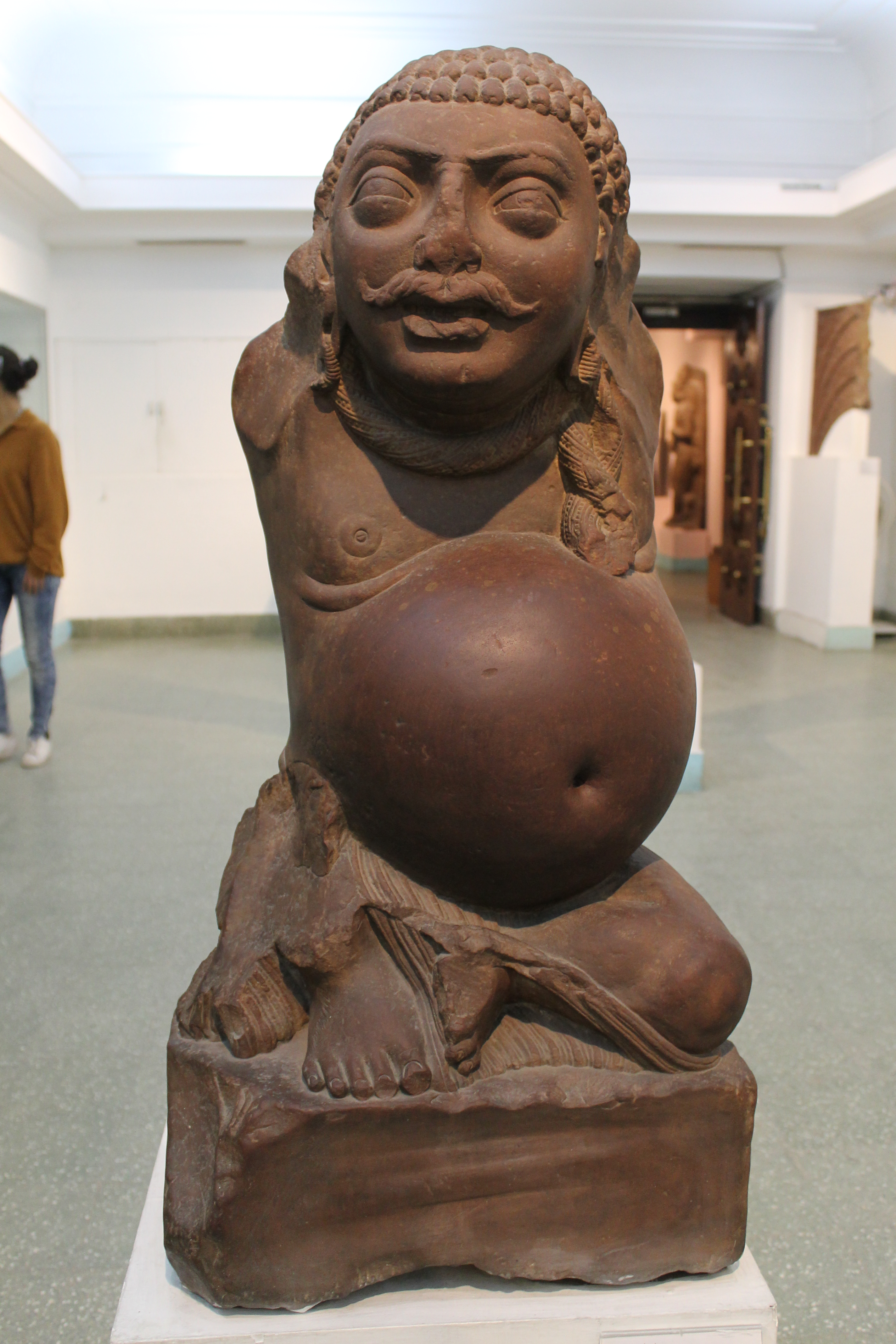 Kubera, National Museum, New Delhi, India